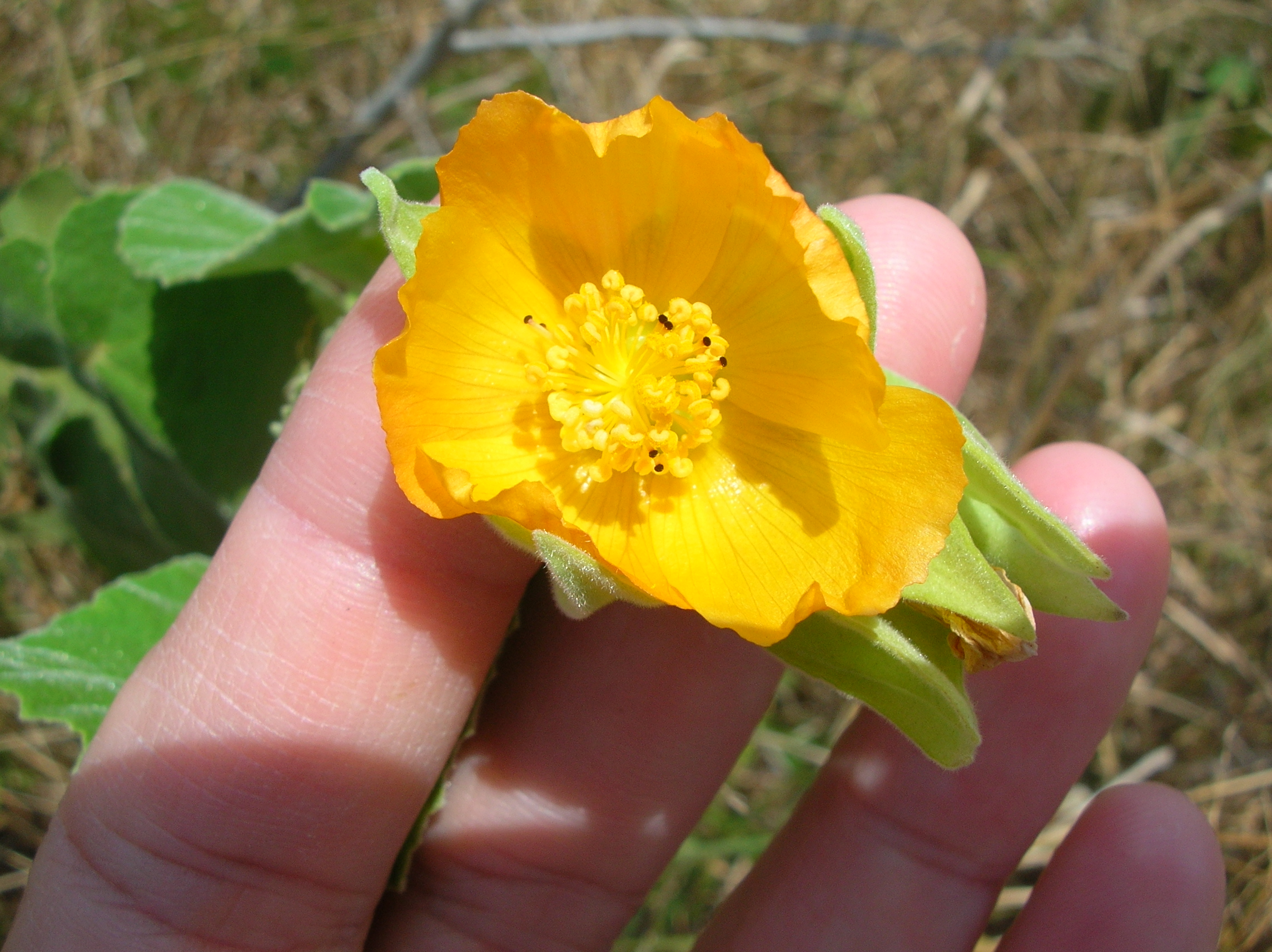 Abutilon grandifolium (flower). Location: Maui, Kahului Airport